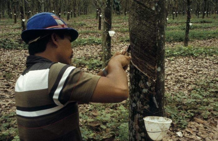 Tapping rubber at a plantation of Goodyear near Siantar